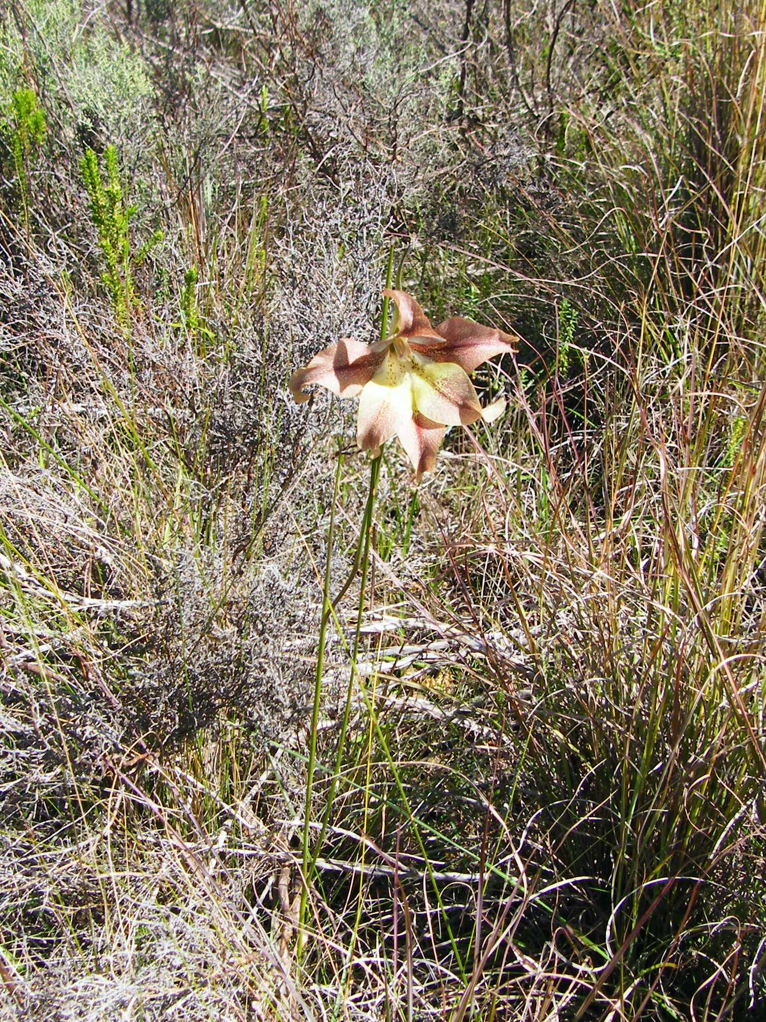 Large Brown Africaner, Caledon Sout Africa